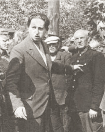 Volksdeutscher showing German soldiers Pole - an alleged participant in the events of so-called "Blody Sunday in Bydgoszcz" (ger. Bromberger Blutsonntag ). In the first days of September 1939 Poles denounced in such way were usually shot on the spot.